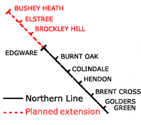 Map of proposed Bushey Heath extension of the Northern Line. London Underground (Based on Northern Heights.png image by User:ChrisO)